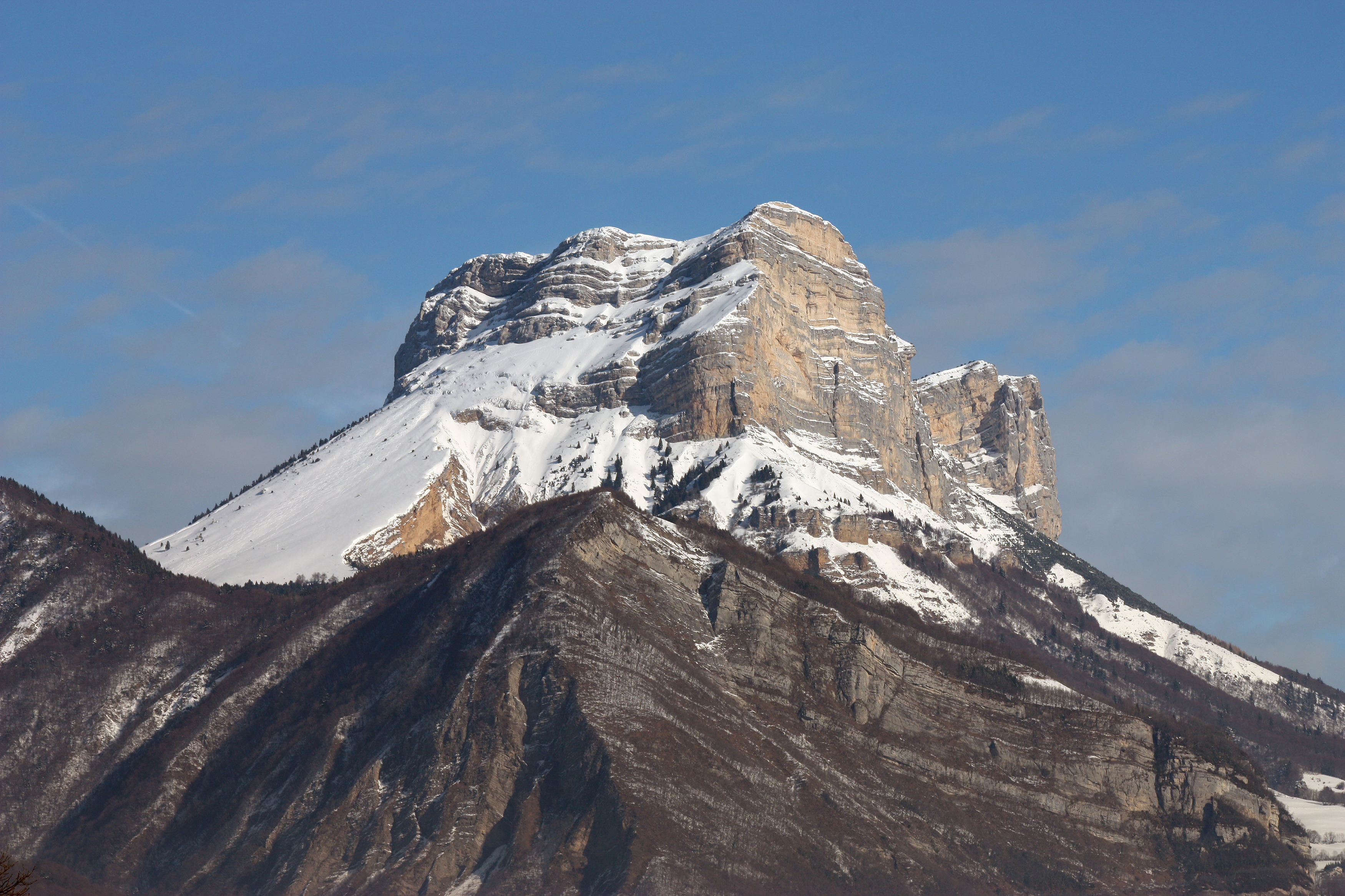 The Dent de Crolles mountain, seen from Saint-Ismier in winter.